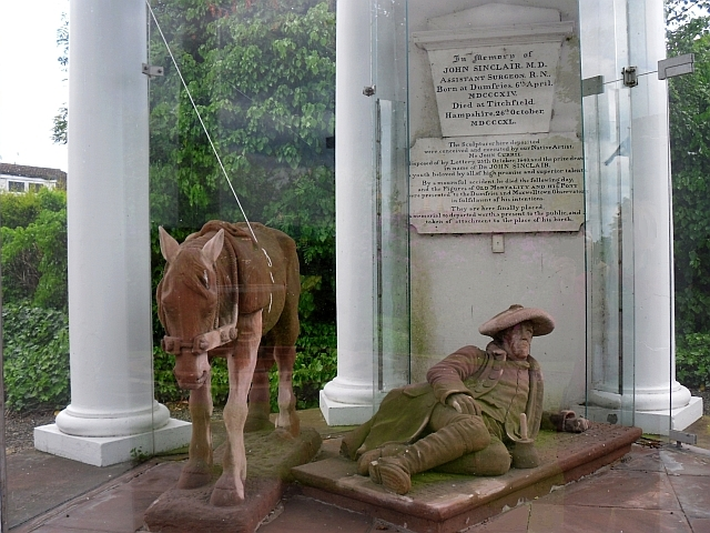 Statue of Old Mortality and his pony. The Sinclair Memorial, in the grounds of The Observatory, Rotchell Road, Maxwelltown, on the western-side of the River Nith, Kirkcudbrightshire. Old Mortality was the nickname of Robert Paterson (1715-1801), a stonemason who took it upon himself to travel around lowland Scotland carving inscriptions for the unmarked graves of Covenanters, martyred in the 17th century. He is the subject of a novel by Sir Walter Scott. The sculptures are by John Currie (or Corrie).